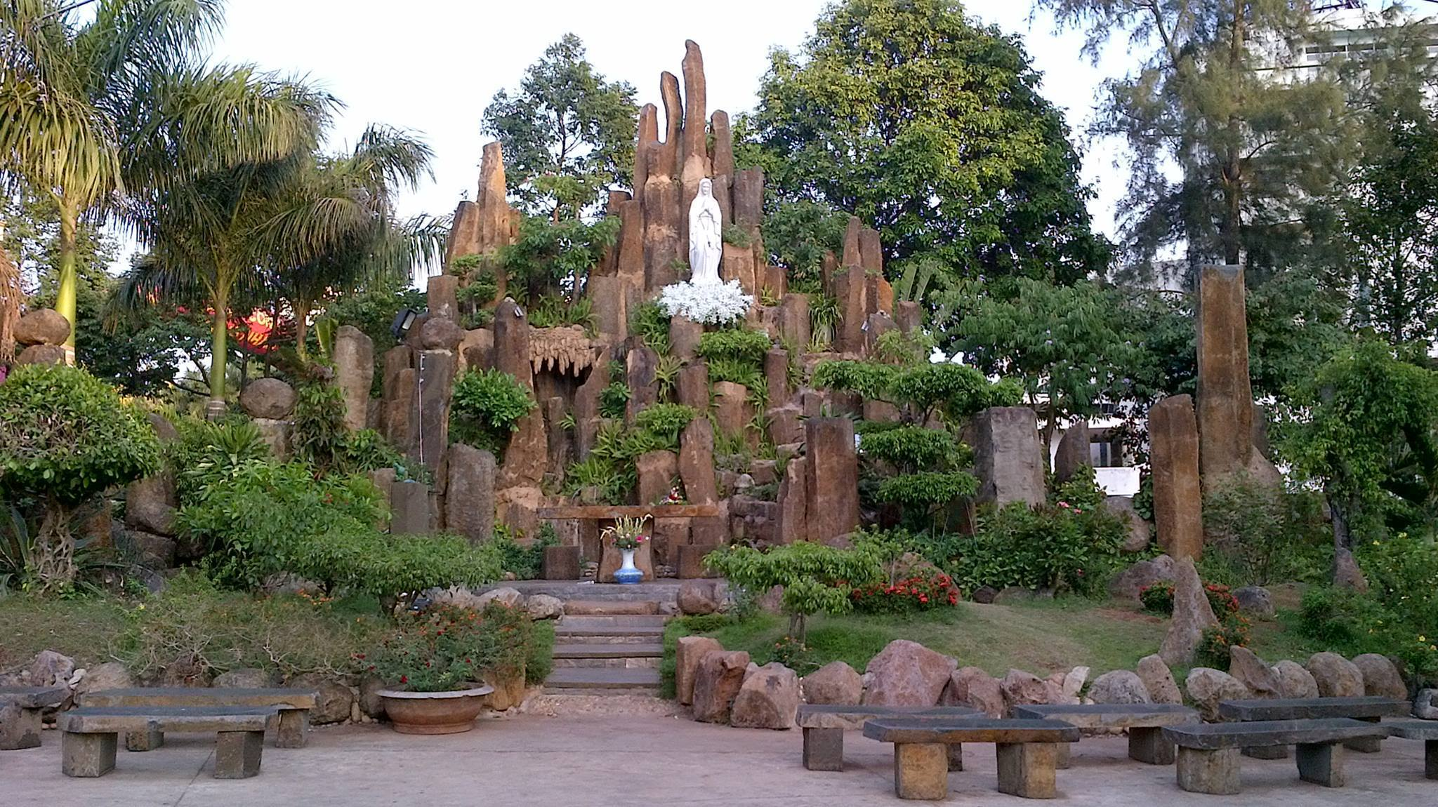 Nhà thờ chính tòa